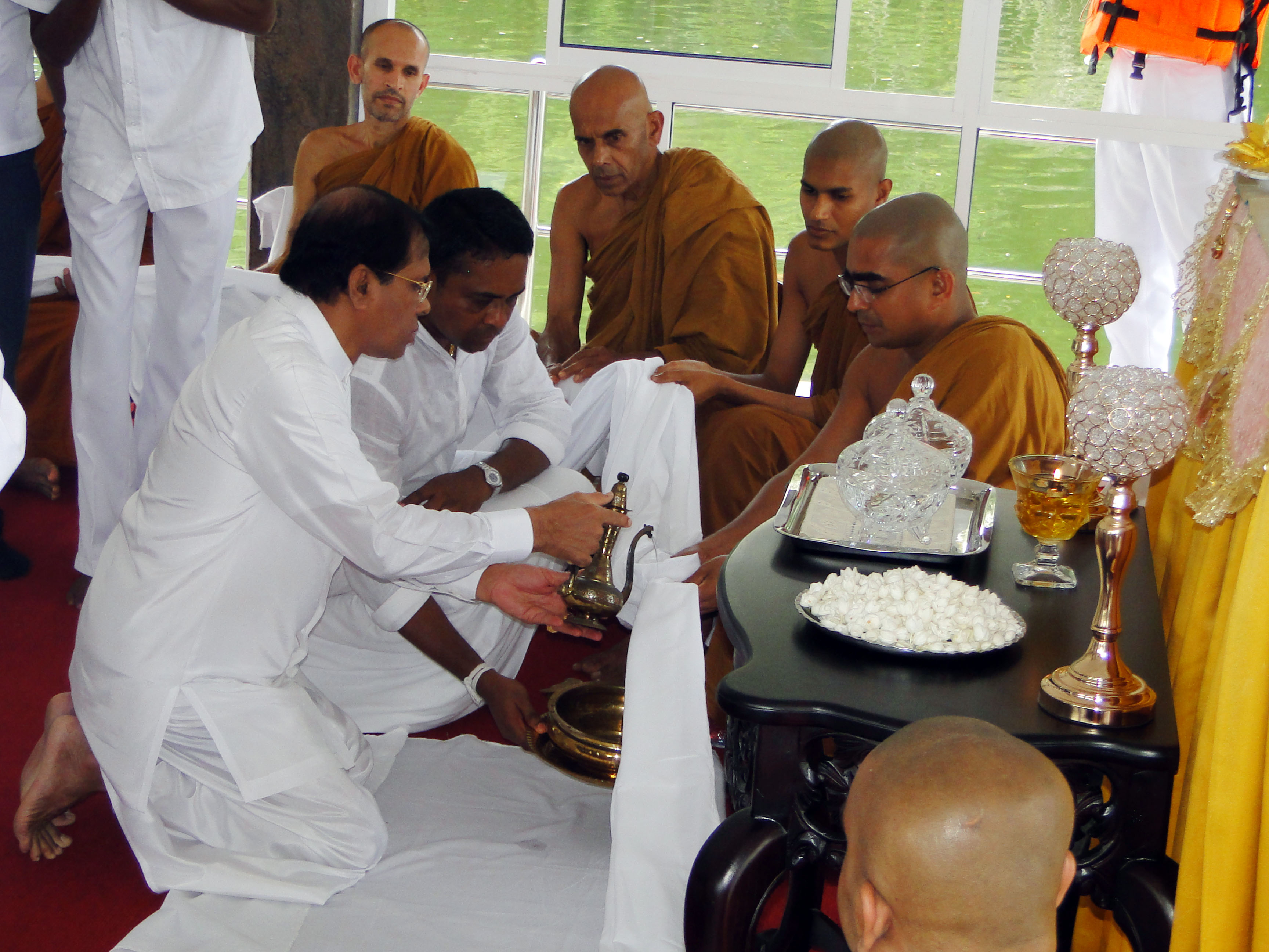 Sri Lankan President at the inauguration ceremony.